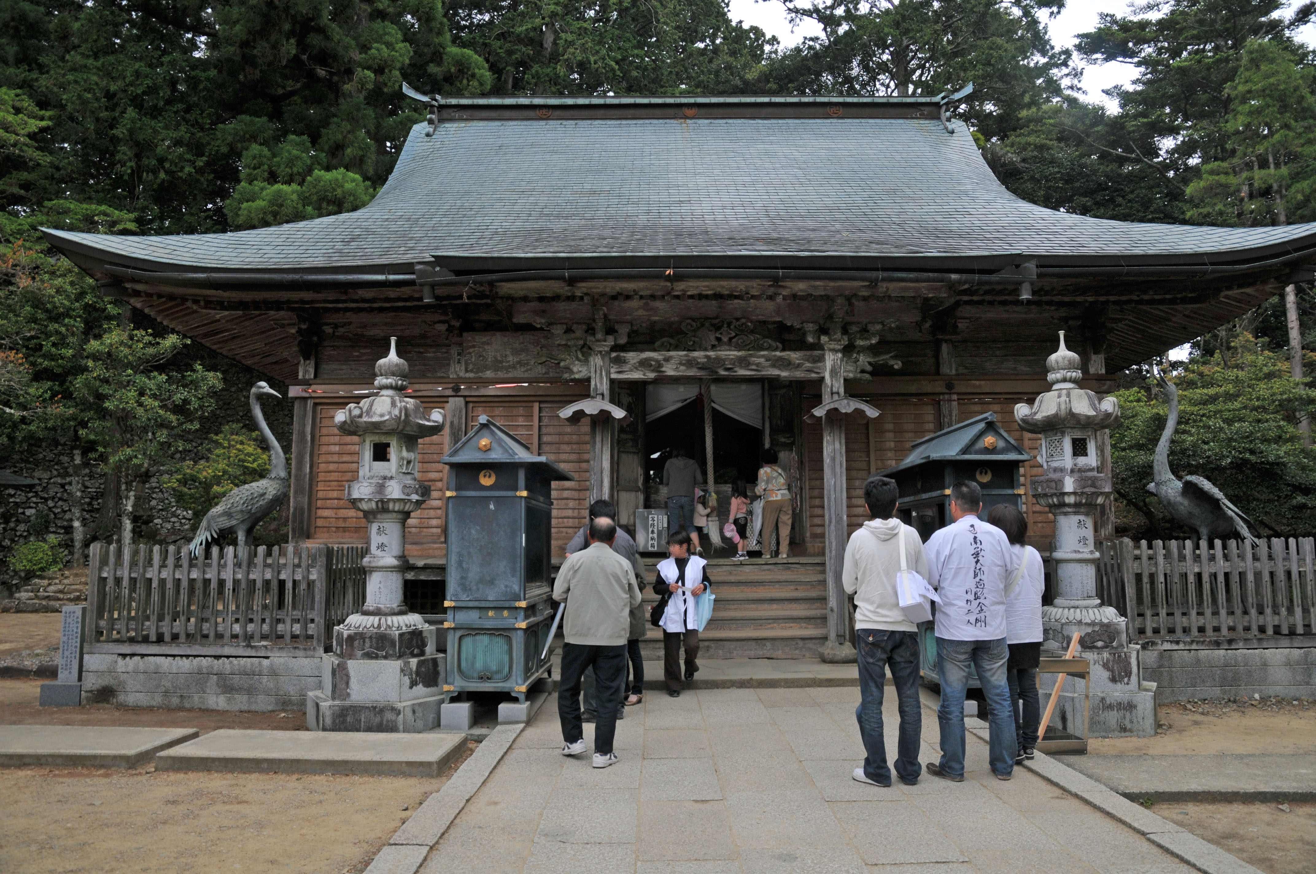 Main temple, Kakurin-ji